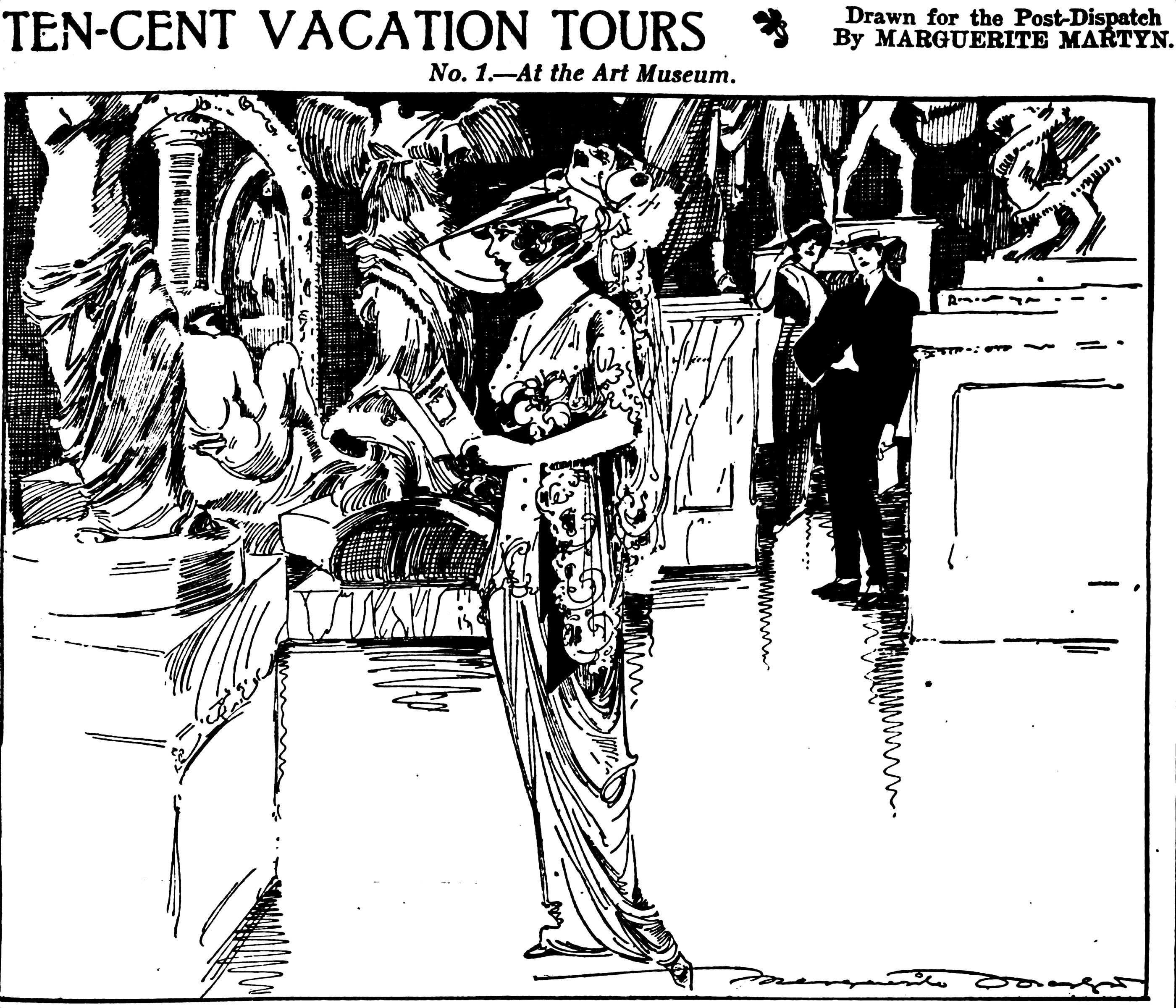 Sketch by Marguerite Martyn of woman visitor and interior of St. Louis Art Museum in 1913.